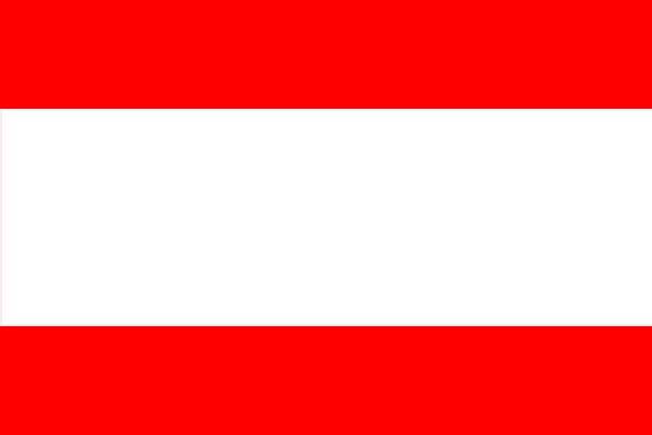 Flag of Tahiti, per Flags of the World website description (1.5/1 proportions, red/white/red horizontal stripes in 1:2:1 ratio)